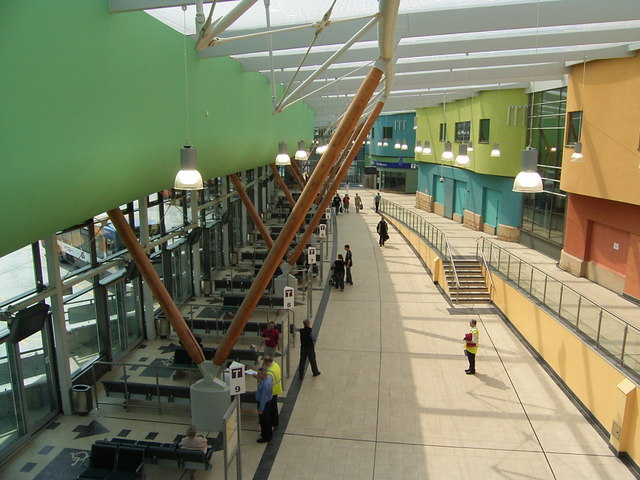 Barnsley Interchange